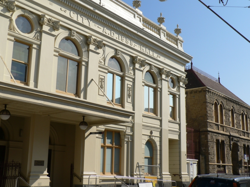 Prahran City Hall and Police Station